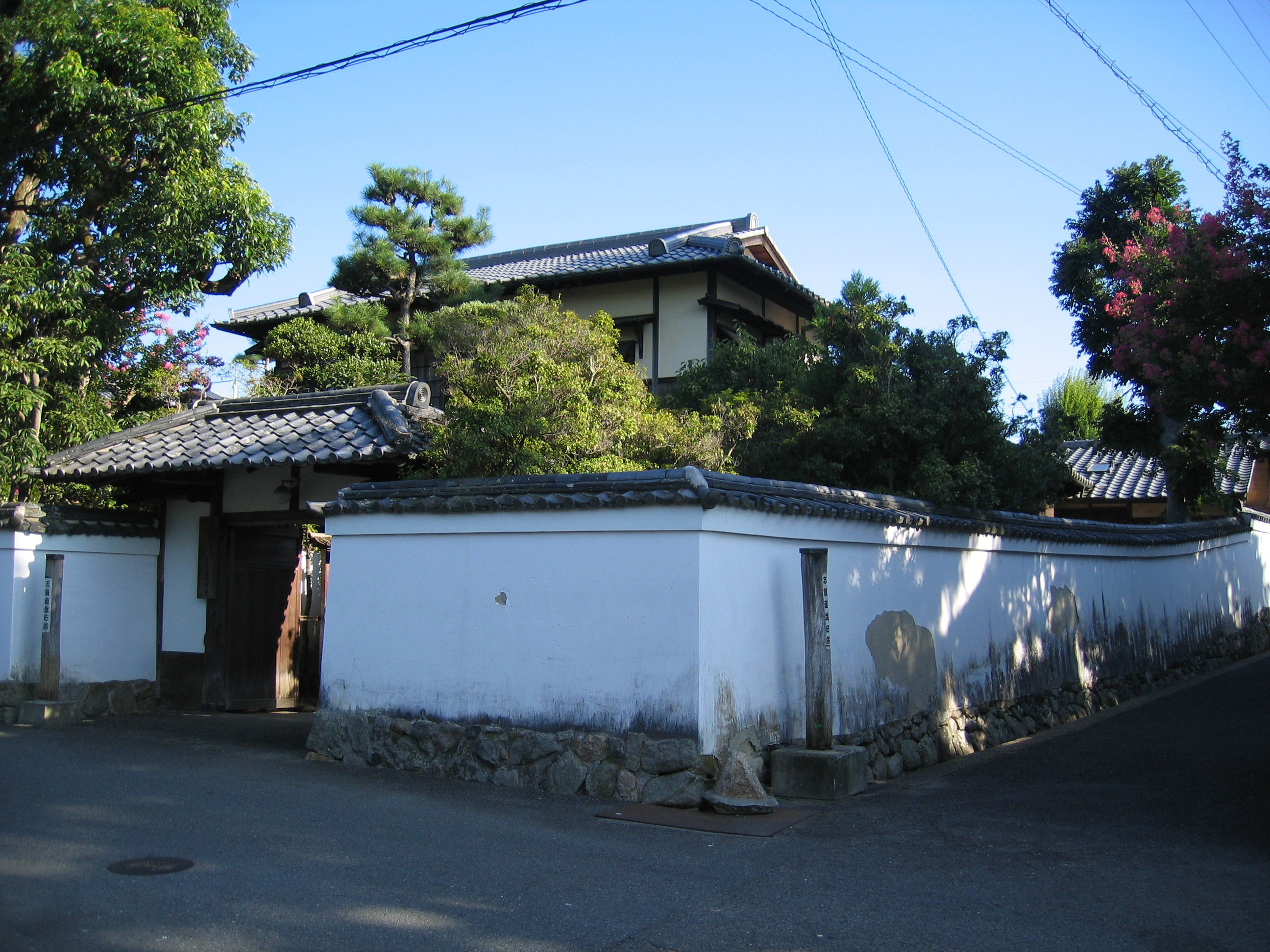 Old House of Naoya Shiga, used as seminar house of Nara bunka jyoshi University